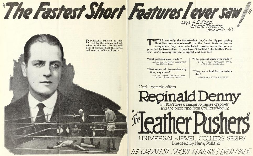 Ad for the American film serial The Leather Pushers (1922) with Reginald Denny, on pages 32 and 33 of the June 24, 1922 Universal Weekly.